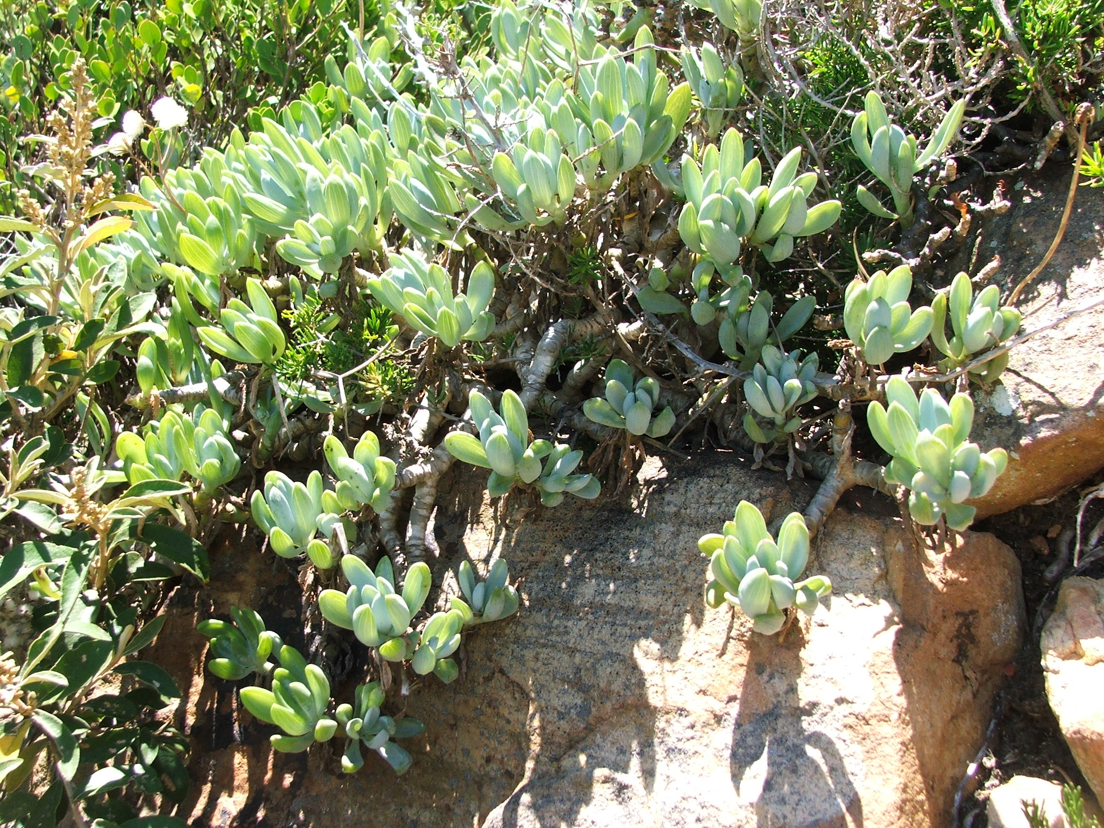 Senecio serpens in its natural habitat in South Africa.